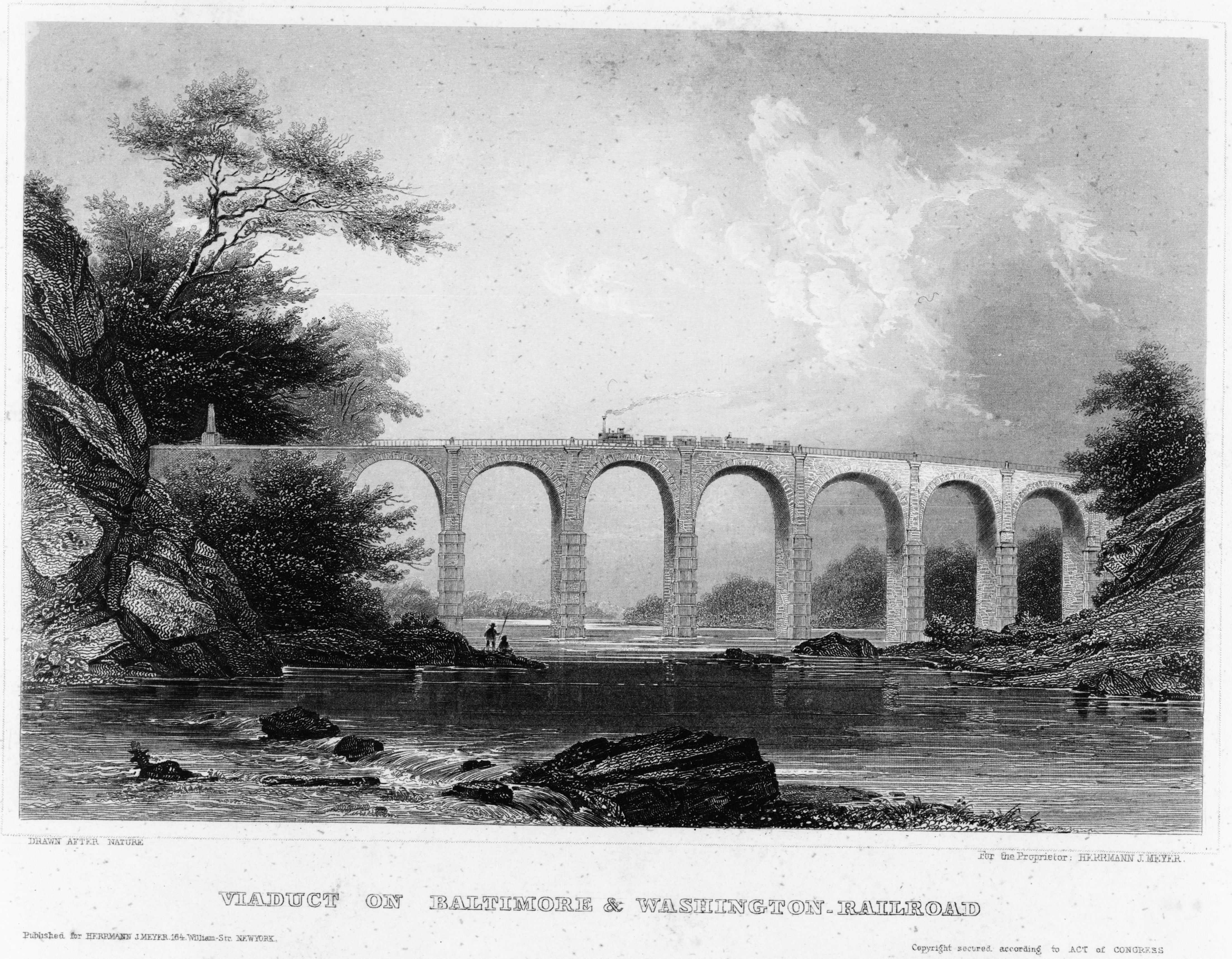 PHOTOCOPY OF 'VIADUCT ON BALTIMORE & WASHINGTON RAILROAD,' AN ENGRAVING FROM THE UNITED STATES ILLUSTRATED, CHARLES A. DANA, EDITOR, CA. 1858. HAER MD,14-ELK,1-17. Thomas Viaduct